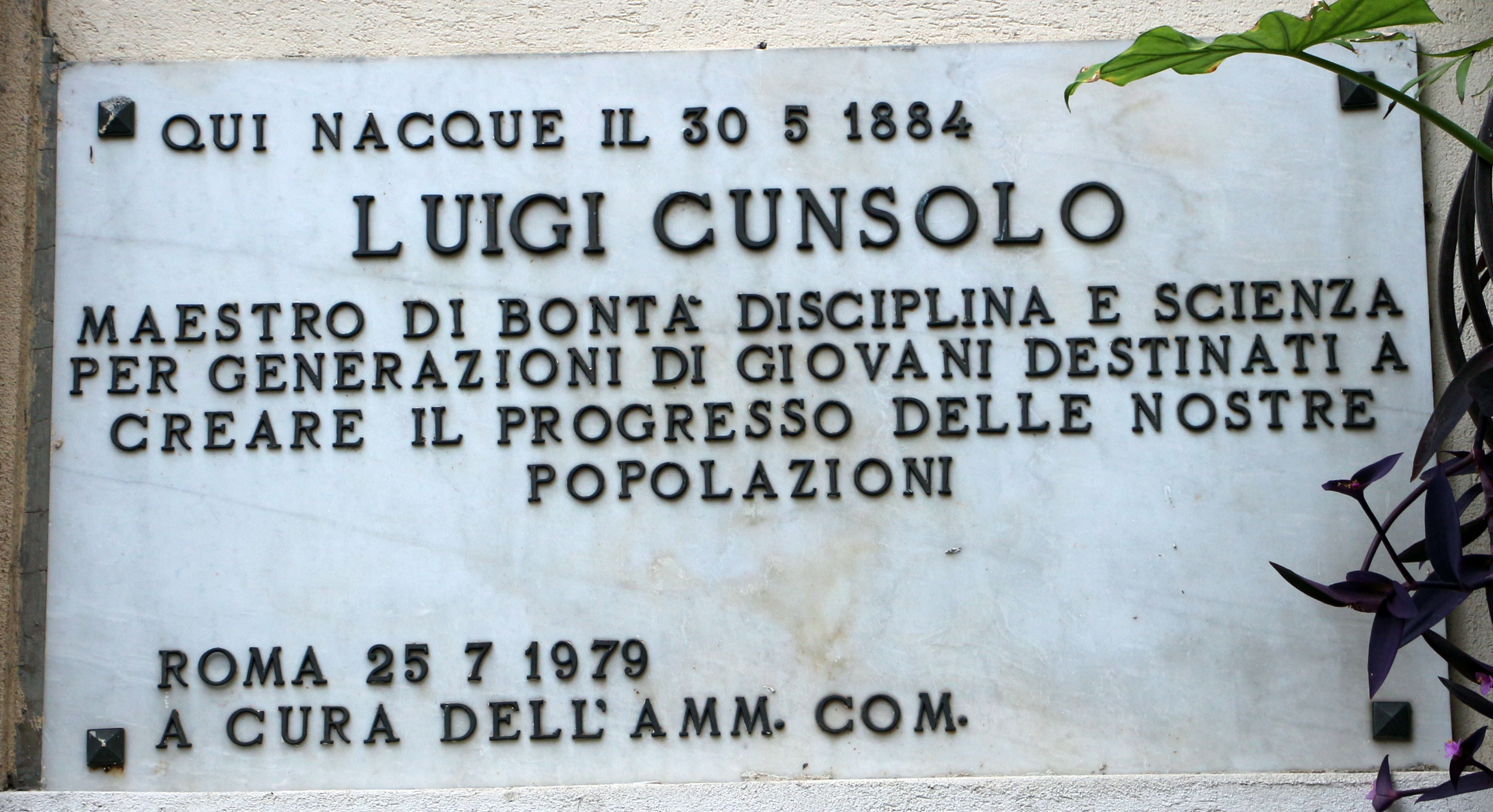 Buildings in Stilo